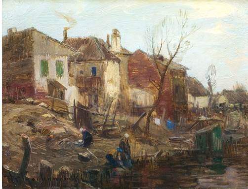 Laundresses